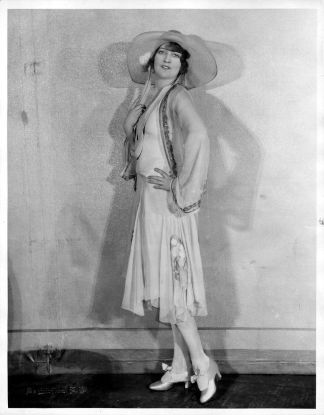 Actress Jeanette MacDonald stands in costume for an unknown Broadway show in the 1920s